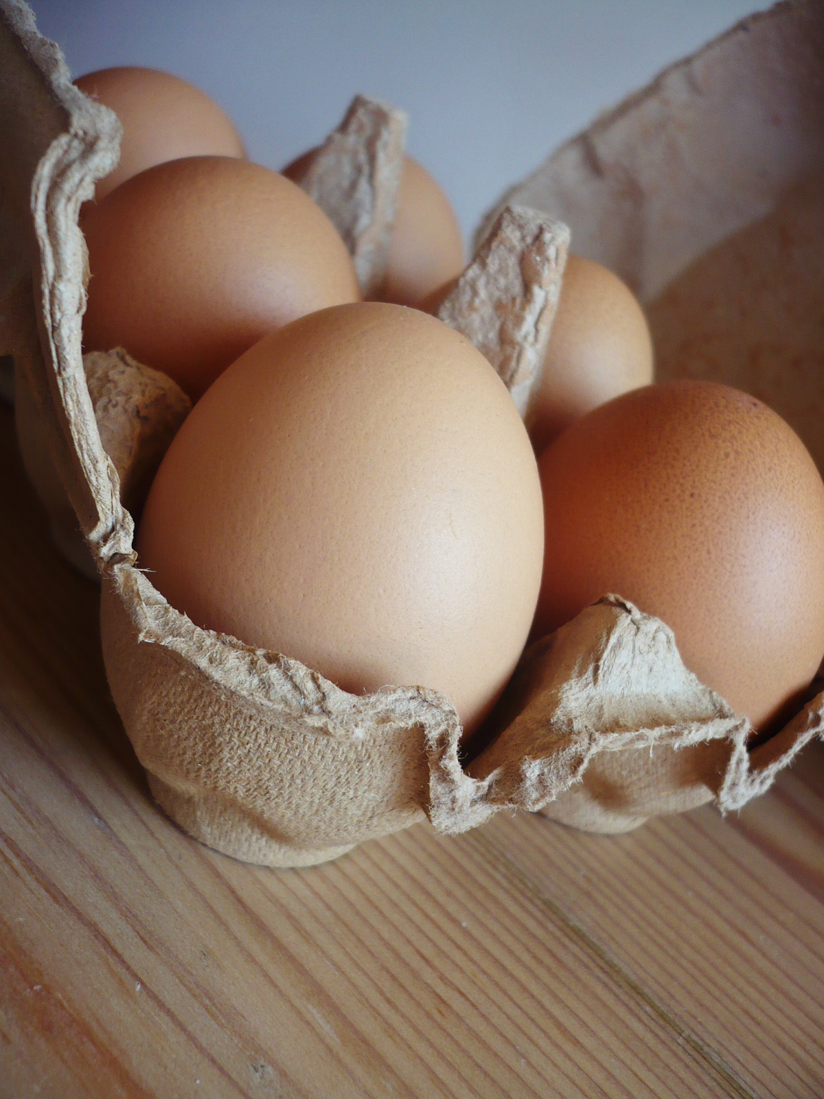 A carton of six eggs.